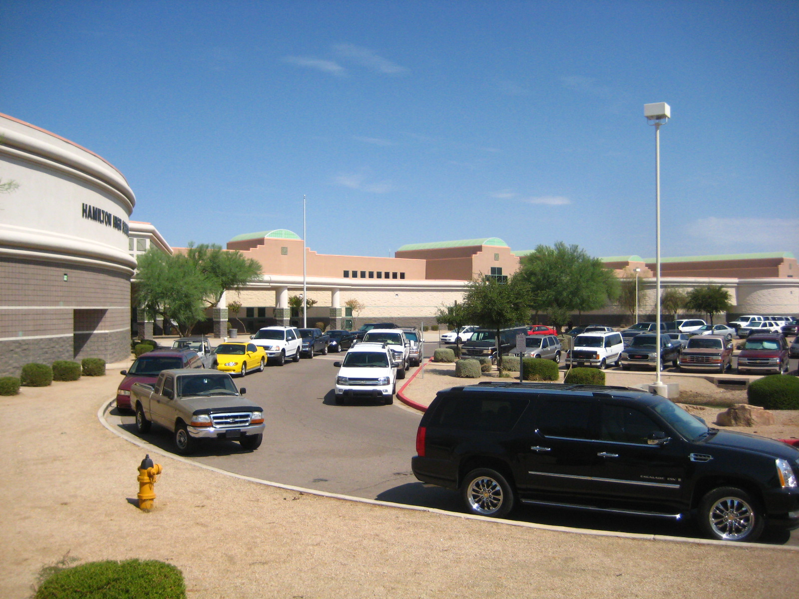 The outside of Hamilton High School and the main drop off area. Notice the green stacks on the top of the building. These indicate the stairways and let plenty of natural light into the building. Hamilton's desert landscape cuts down water usage and sticks out from its tropical surroundings with light rocks and native plants.